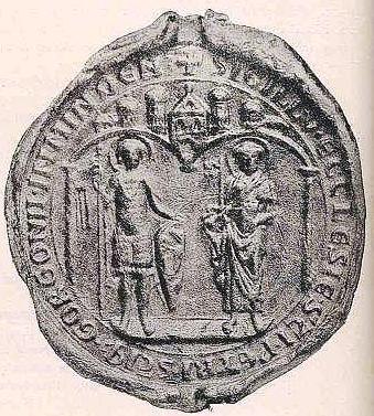 Seal of the Minden cathedral chapter.